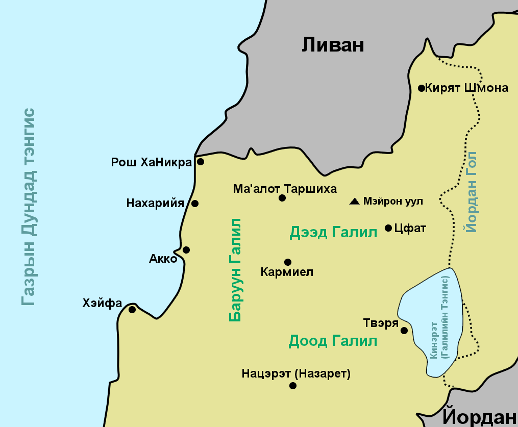 Map of Galilee in Mongolian.